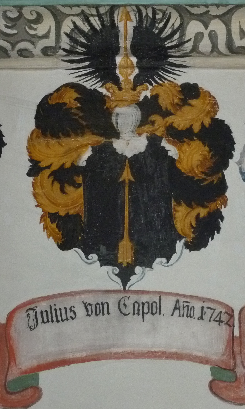 Cuort Ligia Grischa Wappen Capol